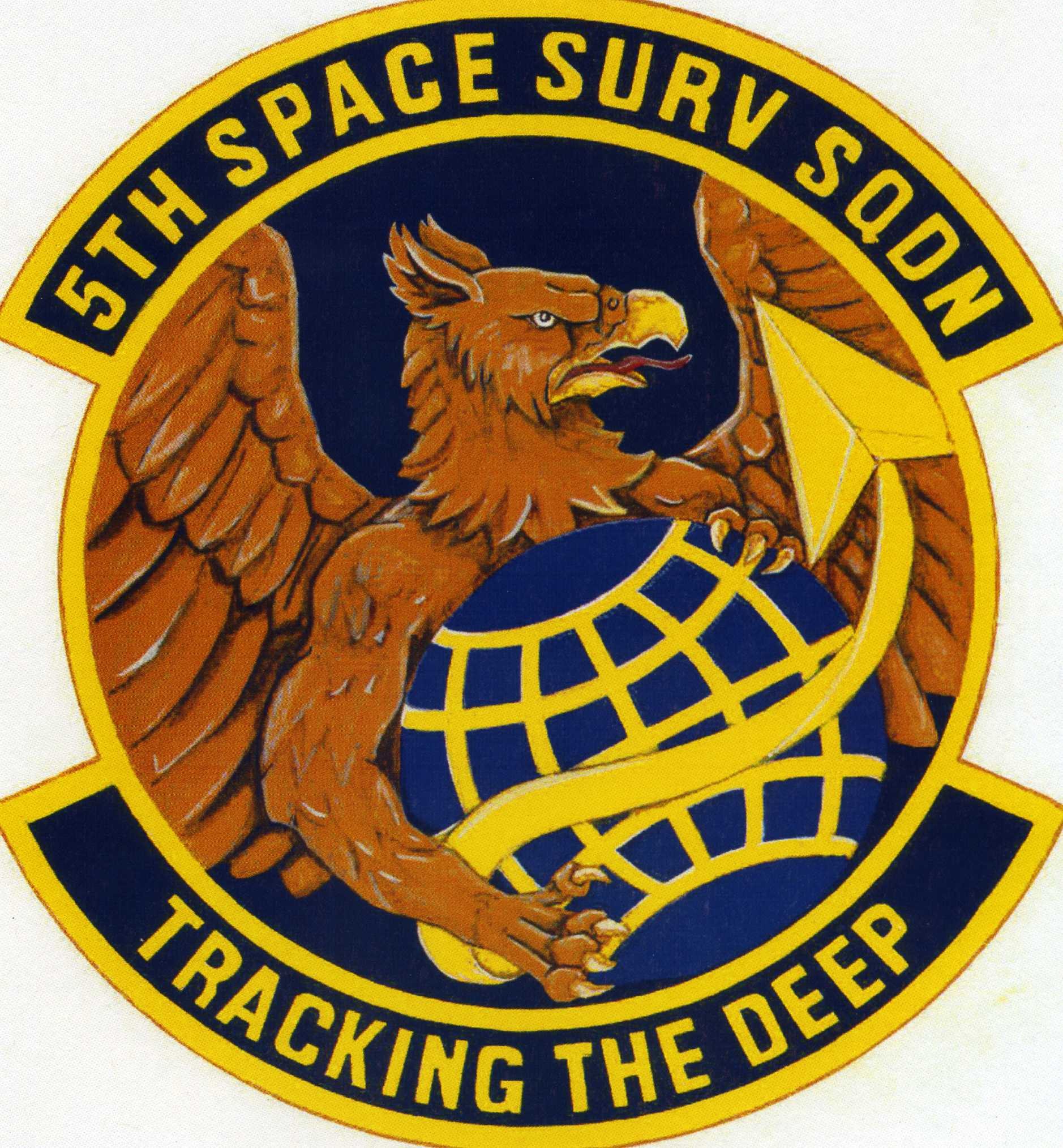 5th Space Surveillance Squadron emblem